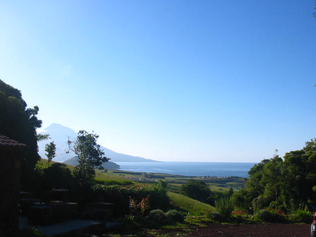 Southern coast of Faial Island (Azores), between Horta and Feteira.